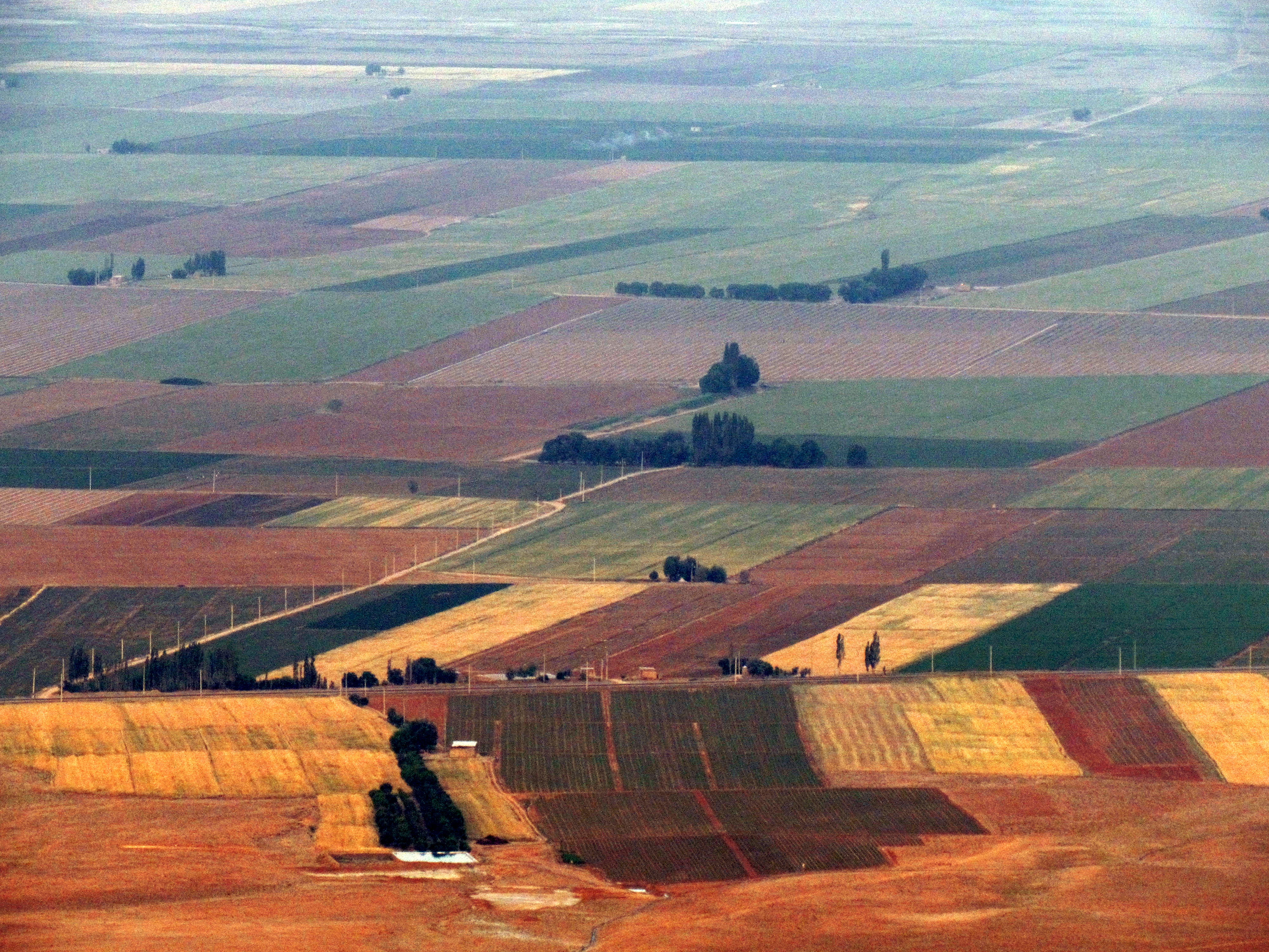 Fields in Eqlid County, Iran; Timargun (Namdan)